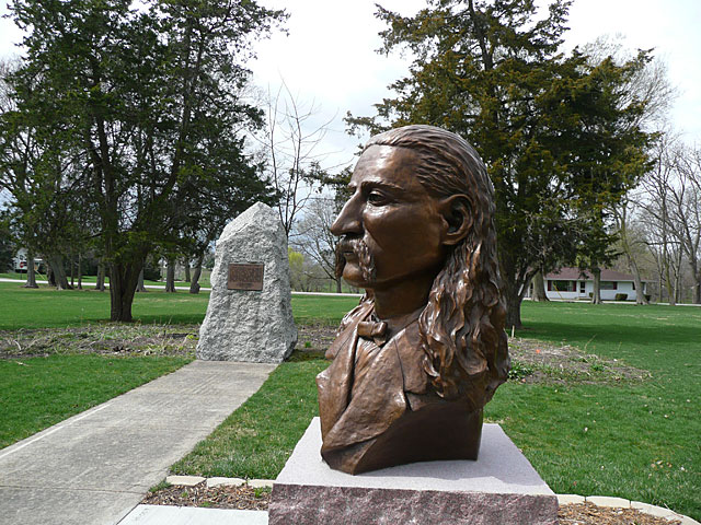 Photo of the statue at the Wild Bill Hickok memorial in Troy Grove Illinois.